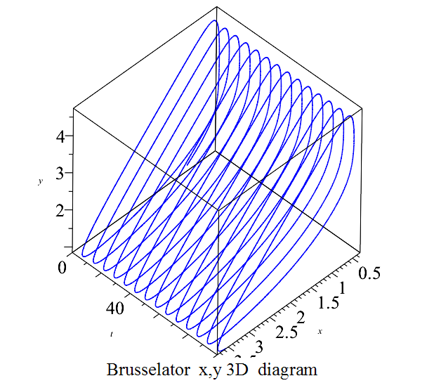 Brusselator 3D plot